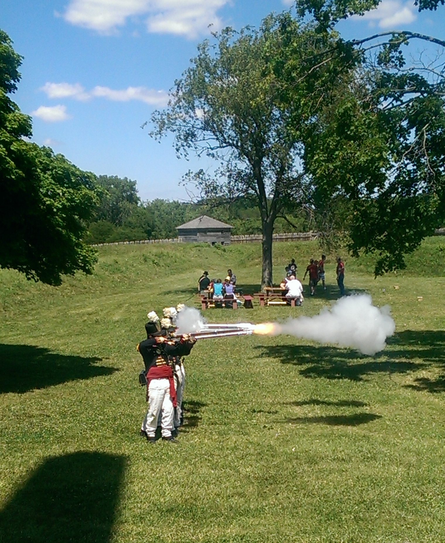 Historic reenactors in uniforms of the style worn by US soliders during the War of 1812 firing flintlock muskets inside Fort Meigs, Ohio.